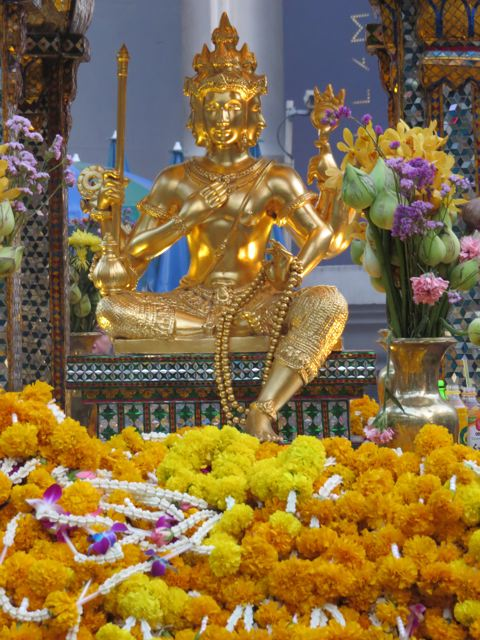 Thai Budha sitting